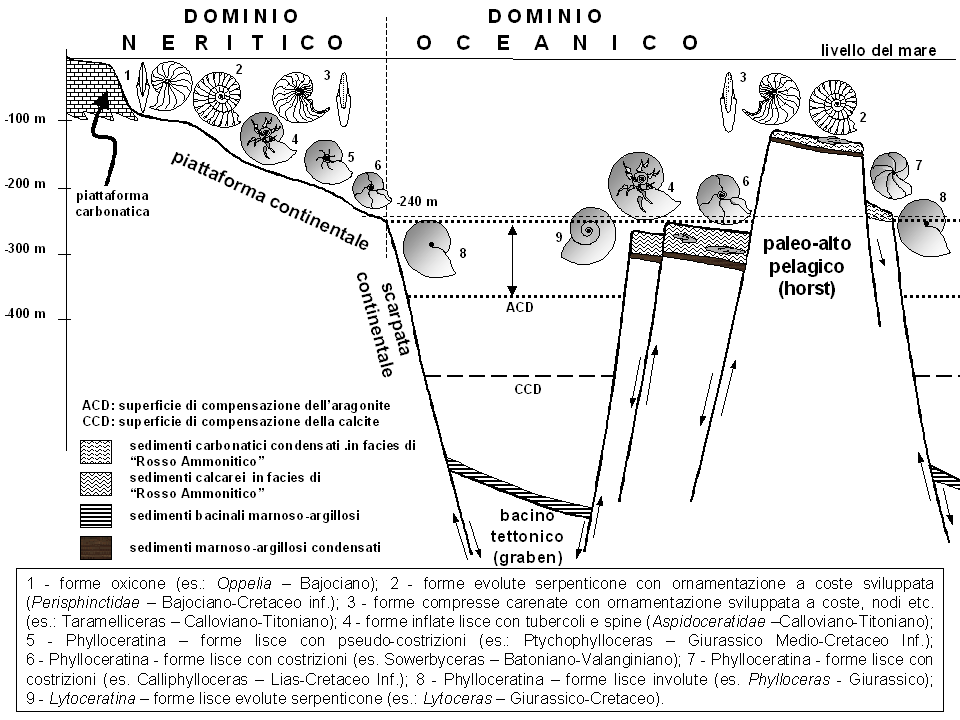 idealized scheme of ammonites habitat in Middle-Late Jurassic. Data mainly after Donovan et al. (1981); Sarti (2003). Text in italian. Created for the italian Wikipedia.